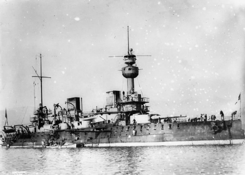 Symonds and Co Collection BRENNUS (1891) at anchor c.1900.